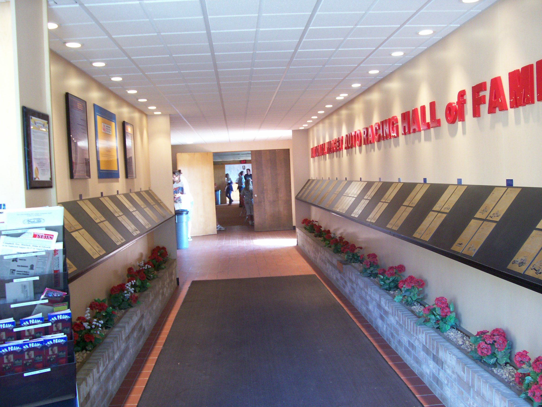 The National Midget Auto Racing Hall of Fame in Sun Prairie, Wisconsin, USA.National Midget Auto Racing Hall of Fame/Angell Park 06.10.07